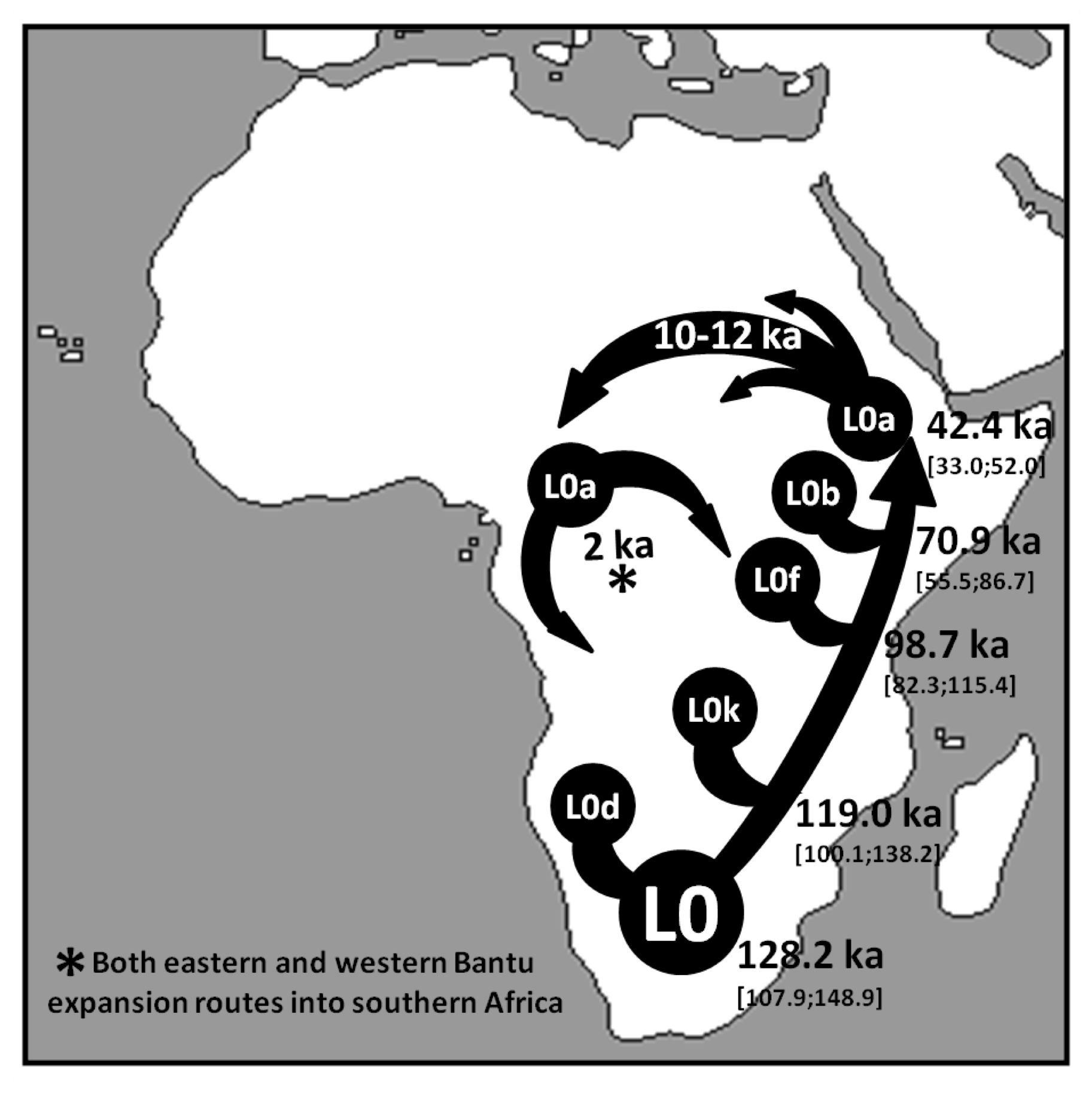 Schematic representation of the major inferred migrations involving mtDNA haplogroup L0. ("ka" is thousand years ago)